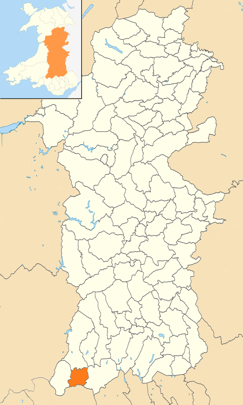 Location map of the community (civil parish) of Tawe-Uchaf in the far south of Powys, Wales